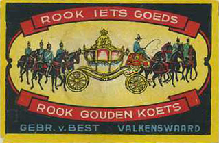 Matchbox label. sigaarfactory van Best Valkenswaard